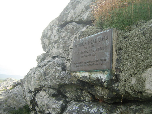 The donation plaque The rather touching legend on this plaque reads: "Zennor Headland given to the National Trust, December 1953 in proud and happy memory of the friends whose love has sustained me. A.B." Sadly the National Trust website has no reference to Zennor Head, or the background to this donation.